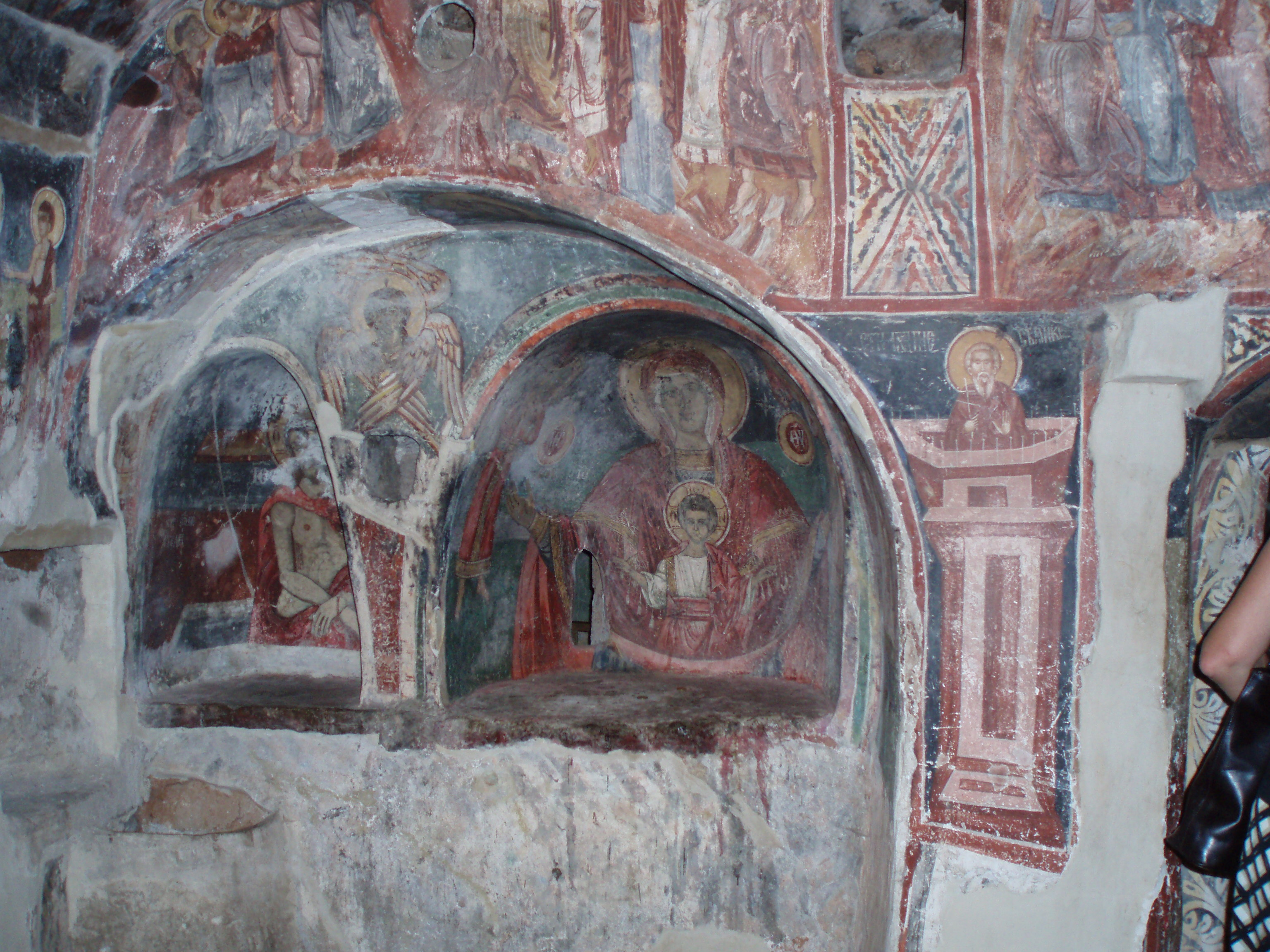 The rock church in the monastery of Kalishta in Republic of Macedonia. Frescos from 14. and 15. century.